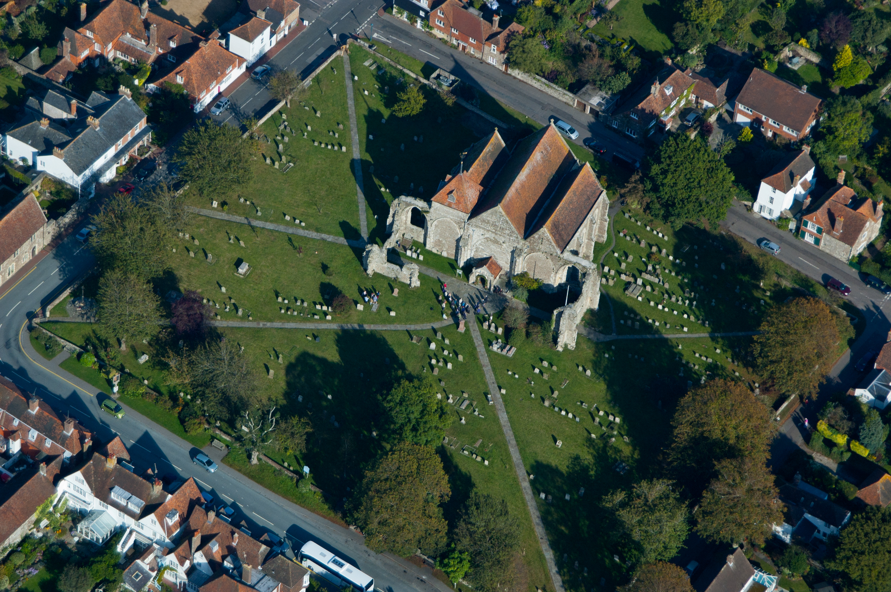 An aerial photograph of the Parish Church of St Thomas the Martyr in Winchelsea.